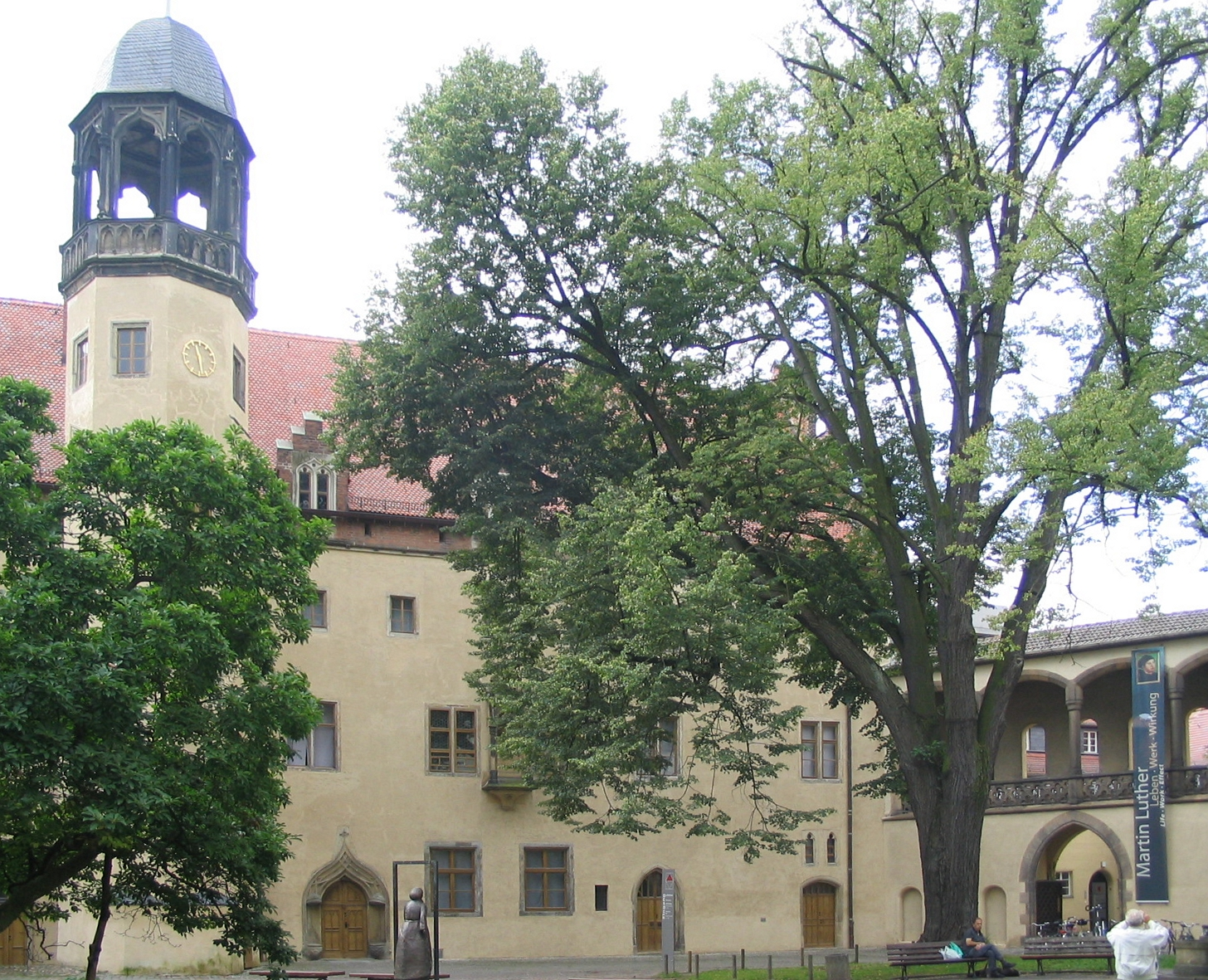 Lutherhaus in Wittenberg own photograph 2005.08.17